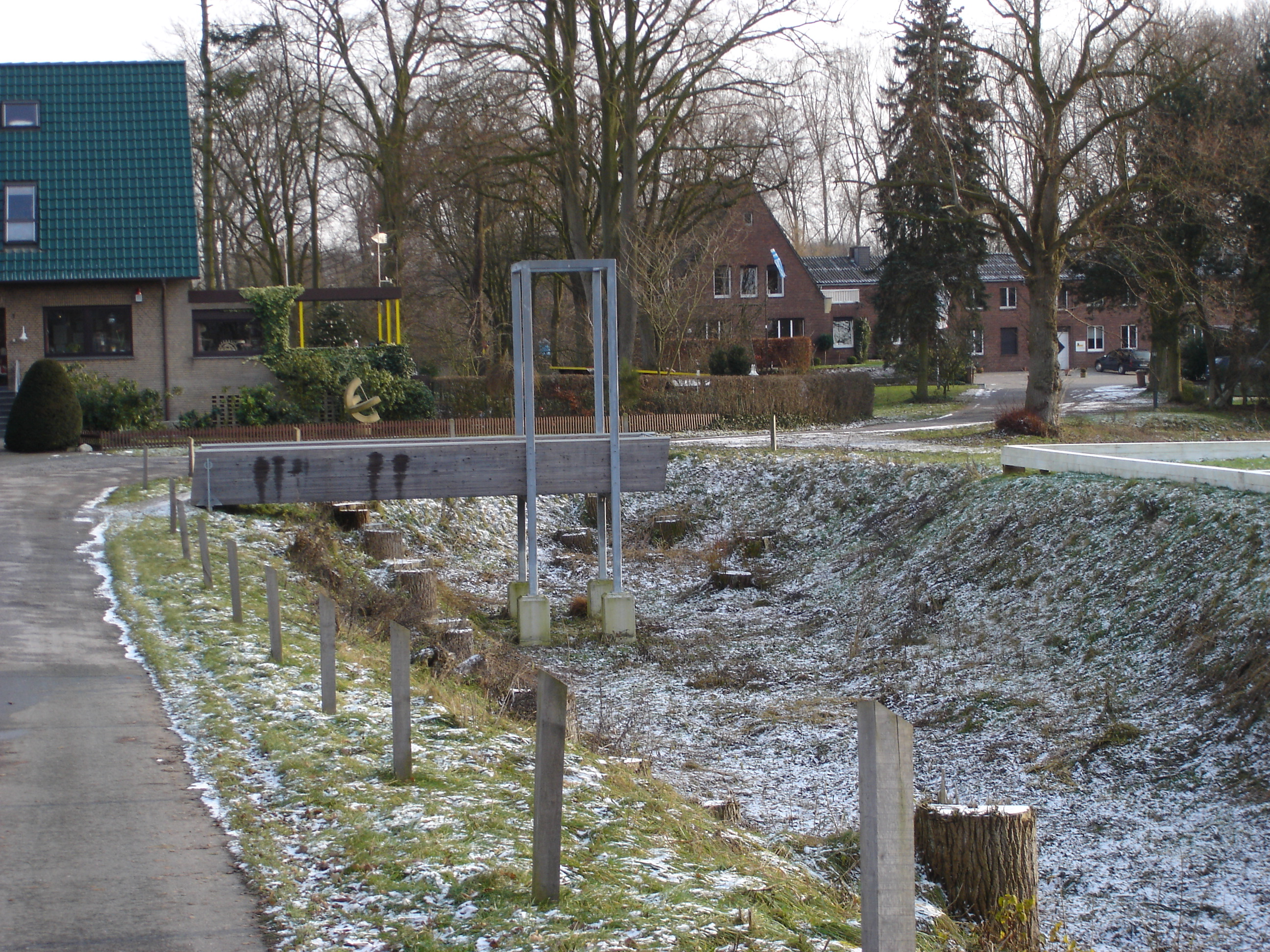 Reconstruction of the fore-bridge of Burg Schöneflieth in Greven, Westphalia, Germany